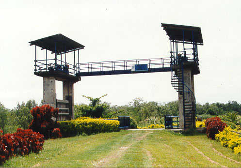 A water gate in Asajaya